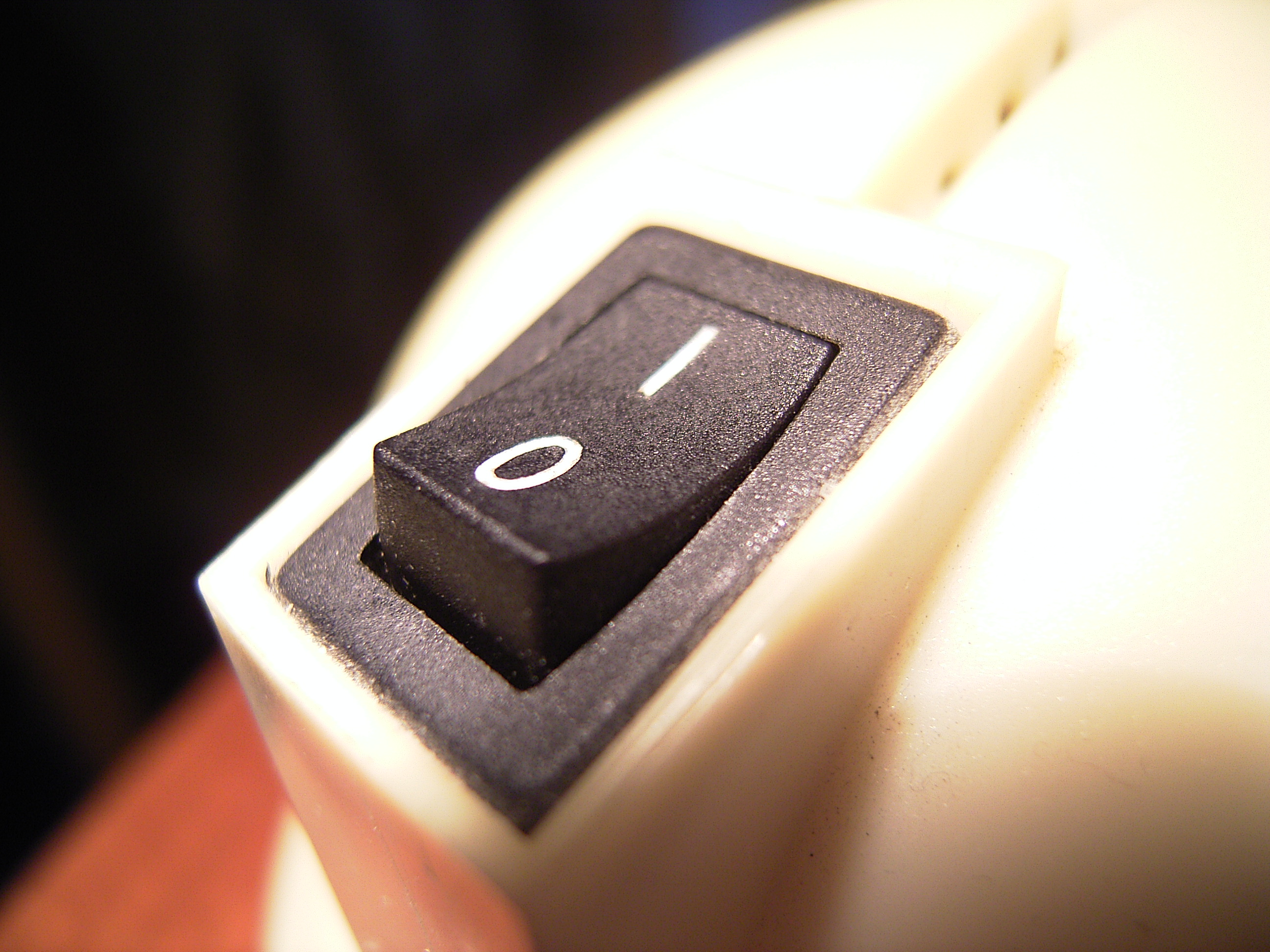 A Switch of a Desklamp